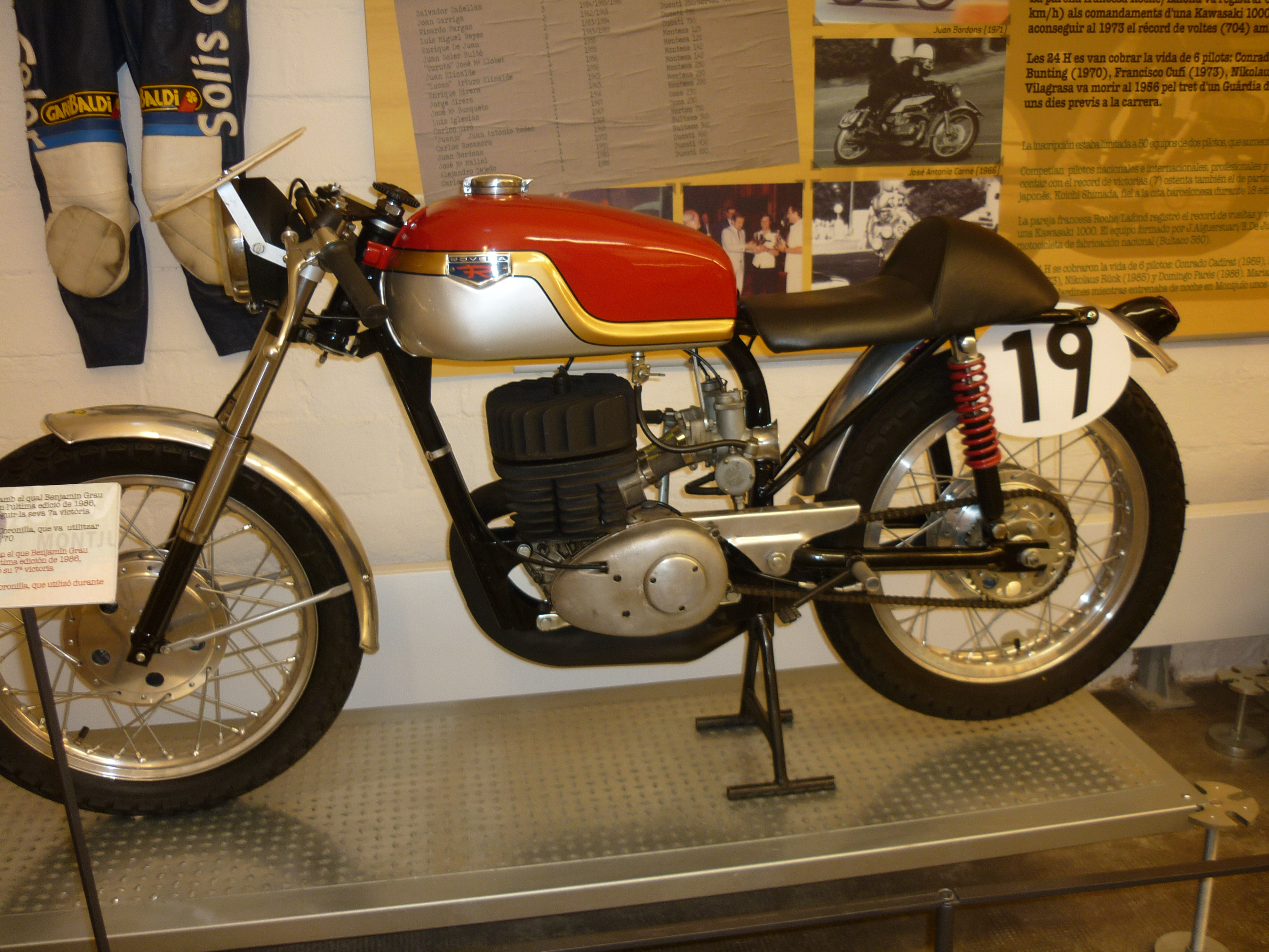 Rovena 250cc. This bike was ridden by Jordi Salas and Josep Raja at X 24 Hours of Montjuïc, on 1964